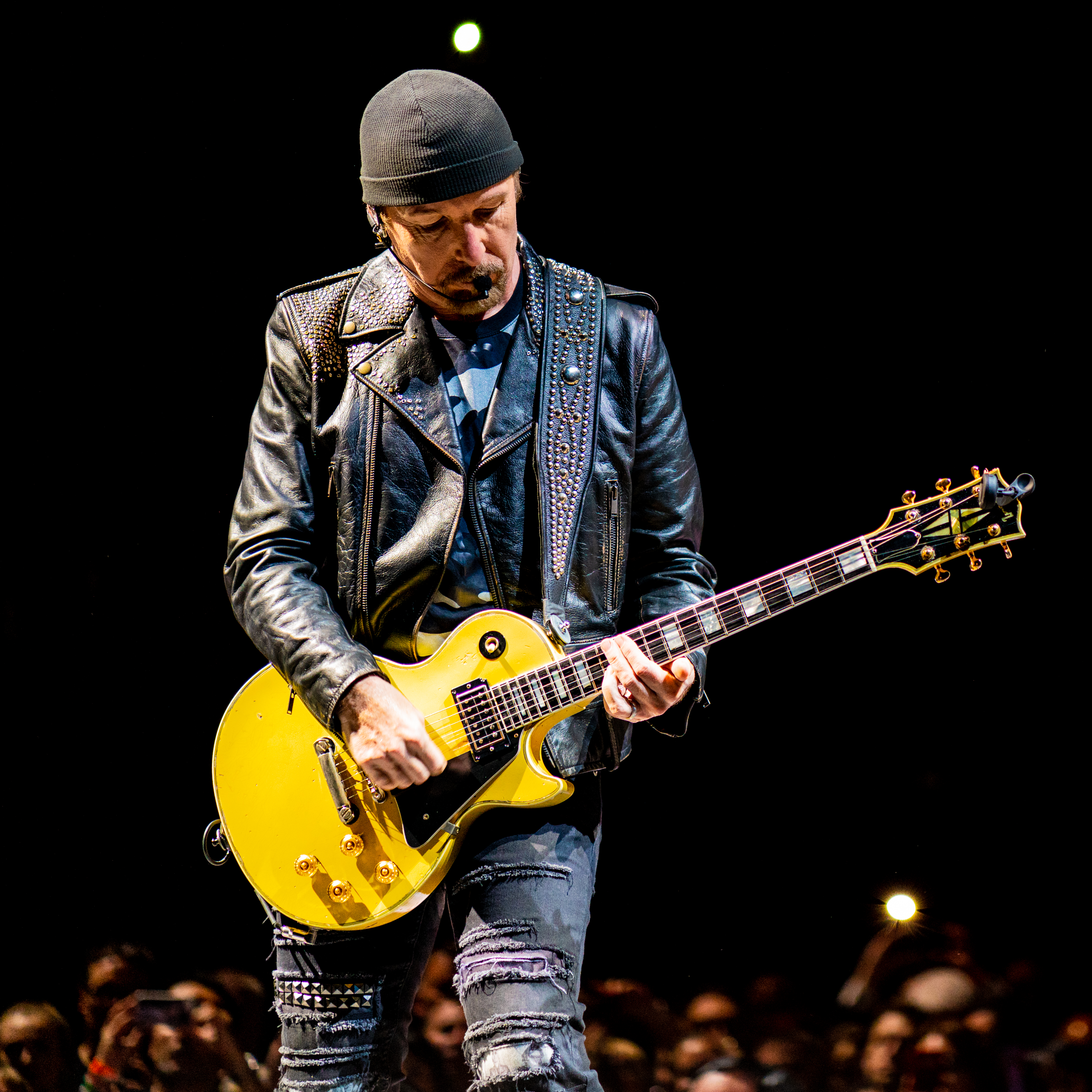 U2 guitarist The Edge performing at Manchester Arena in Manchester, UK on October 20, 2018 during the band's Experience + Innocence Tour